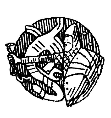 Gerhard Munthe: Illustration for Håkon den godes saga. Snorre 1899-edition. vignett 3